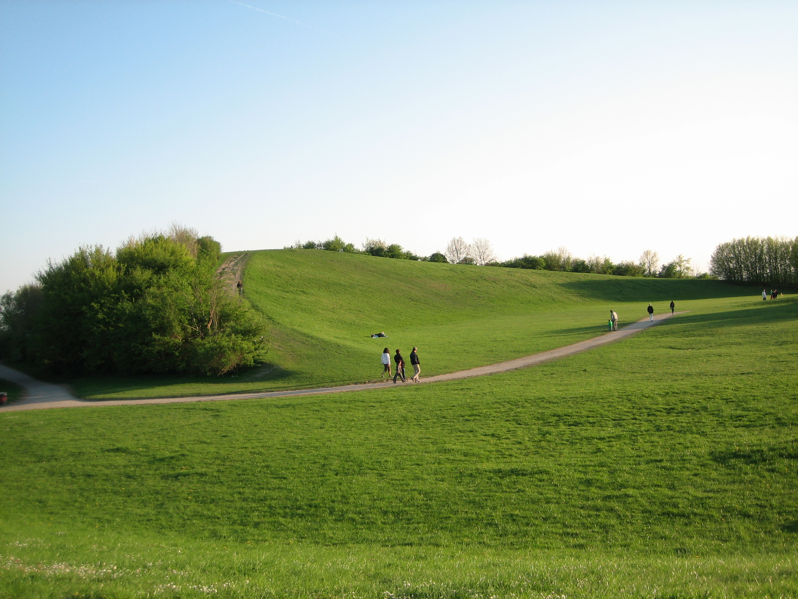 Sankt Hans backar in Lund, Sweden. Photo by the uploader.